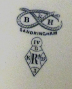 Bodley & Harrold pottery mark, from Burslem, Staffordshire, England, with Stafford knot. The company Bodley & Harrold as a partnership existed from 1862 to 1865.